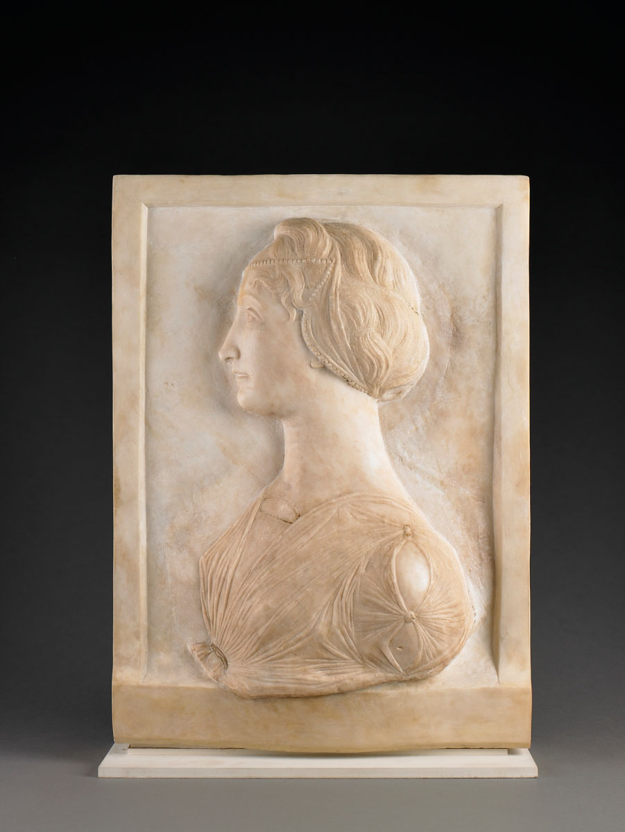 A marble relief of a young woman wearing a classical dress.